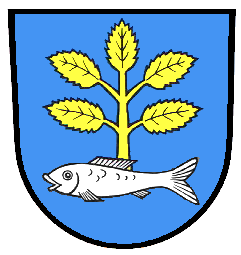 Coat of arms of Niedereschach